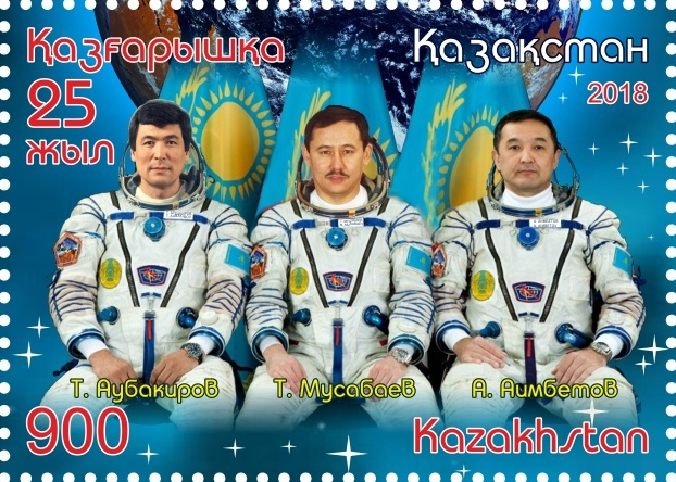 1098-1099. Space. 25th anniversary of Kazcosmos